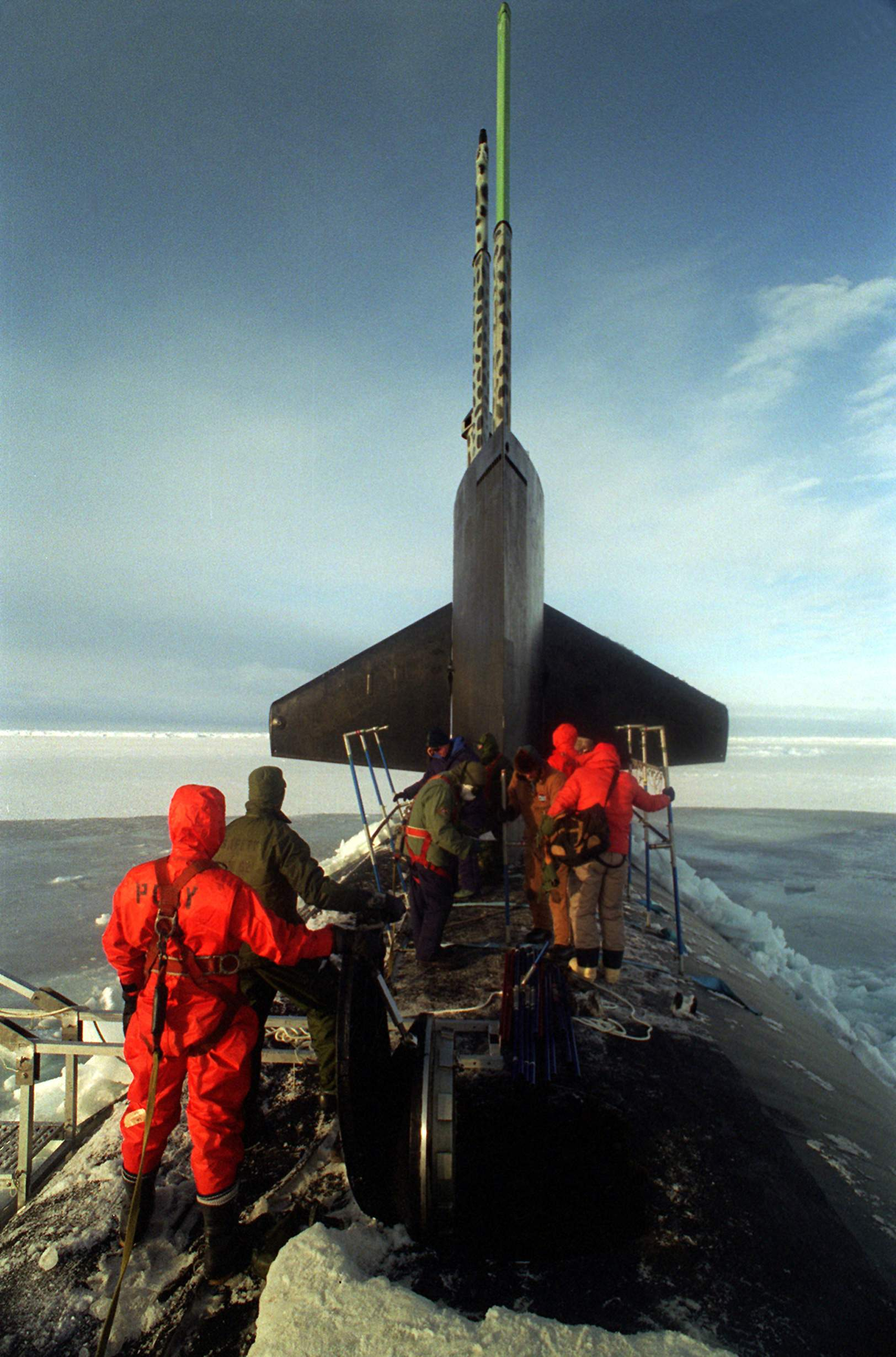 USS Pogy; Crew members from the U.S. Navy’s attack submarine Pogy (SSN-647) assemble a topside deck enclosure to provide protection from the elements while water samples are collected and cataloged. U.S. Navy photo N-4482V-001 by Photographer’s Mate Second Class Steven H. Vanderwerff. From another picture: The second of five planned deployments through the year 2000, Pogy embarked a team of researchers led by Mr. Ray Sambrotto of Columbia University. During the several thousand mile trek, the submarine collected data on the chemical, biological, and physical properties of the Arctic Ocean, and conducted experiments in geophysics, ice mechanics, pollution detection, and other areas. For the purposes of this voyage, a portion of the submarine’s torpedo room was converted into laboratory space. However at no time was the ship ever removed as a front-line warship.